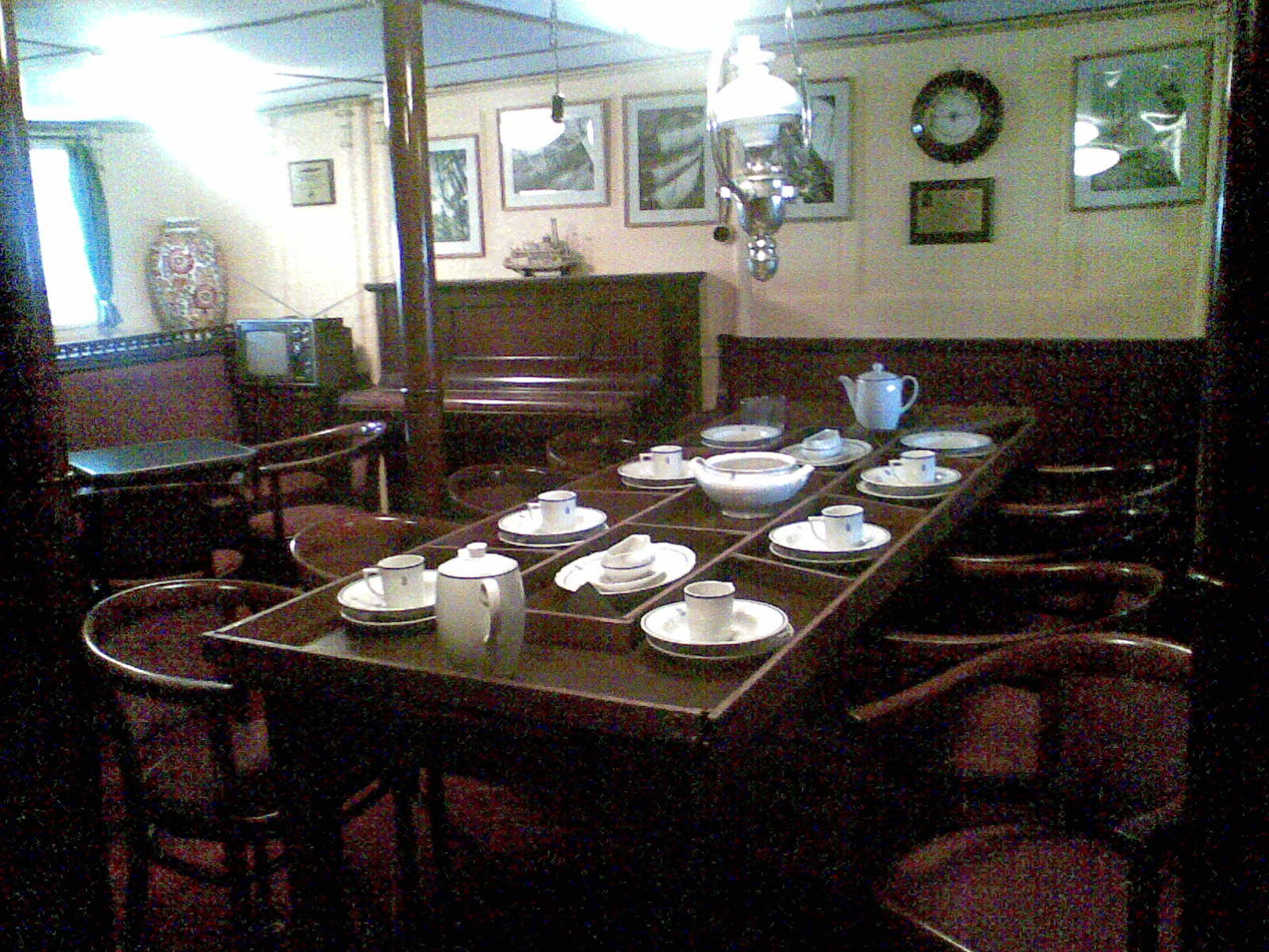 Dining room on Dar Pomorza sailing ship (Gdynia, Poland)